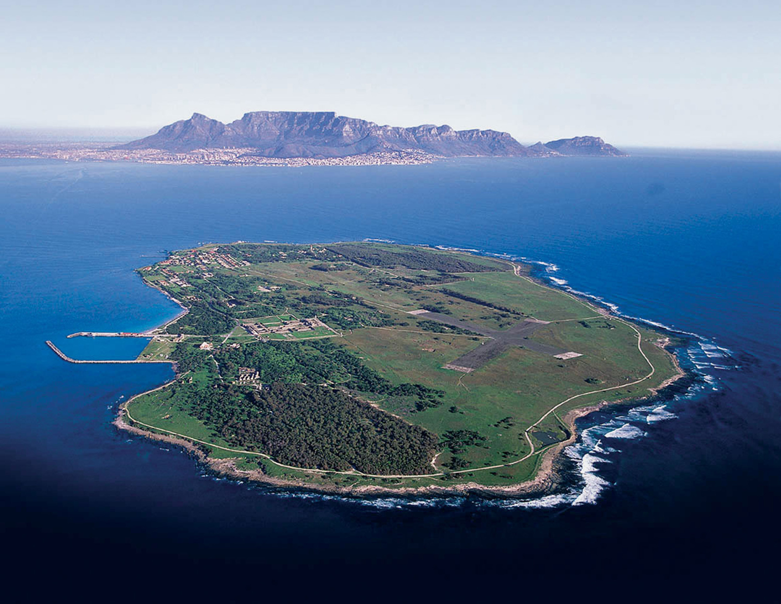 Some kilometers off the coast of Cape Town lies the famous Robben Island. Once a site of heartbreak as a prison during apartheid where Nelson Mandela spent many years. Now a symbol and hope and freedom for South Africa. Vue de Western Cape en Afrique du Sud.